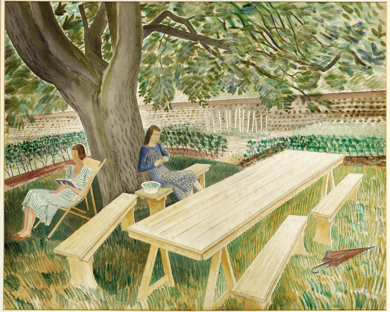 Now at the Fry Art Gallery (accession no. 1736). Watercolour. Painted at Brick House. Depicts the artist's wife Tirzah Garwood (right; shelling peas) and Charlotte Bawden, wife of the artist Edward Bawden. The two couples shared the house from 1932-1934.